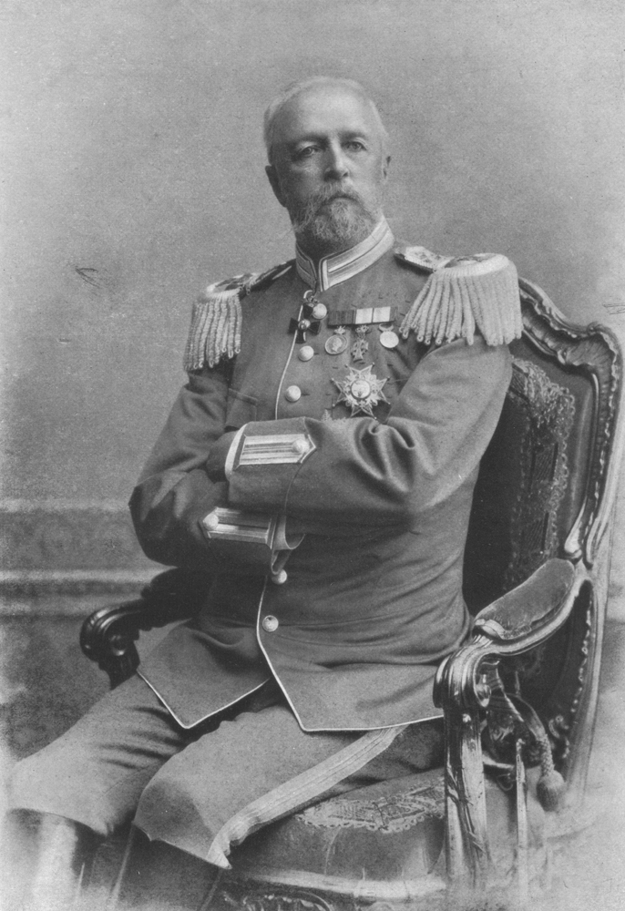 King Oscar II of Sweden (1829-1907) in 1902.